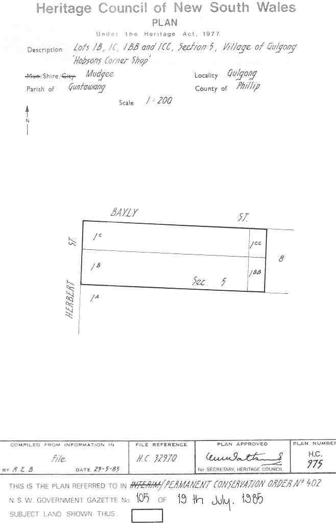 Hobsons Shops: PCO Plan Number 402